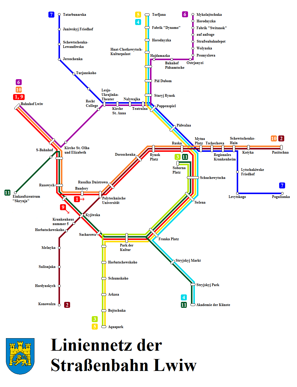 Lviv tram routes scheme (german)